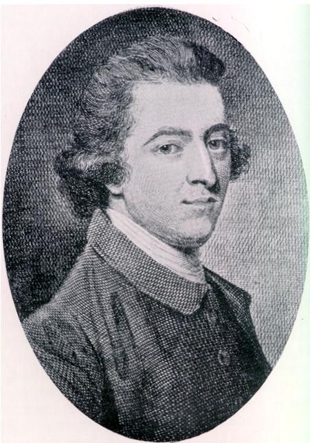 scan (N. de Salis) (of repro) of engraving of Rev. Dr. Henry De Salis. Original by William Sharp (?). Rodolph 11:57, 25 October 2007 (UTC)